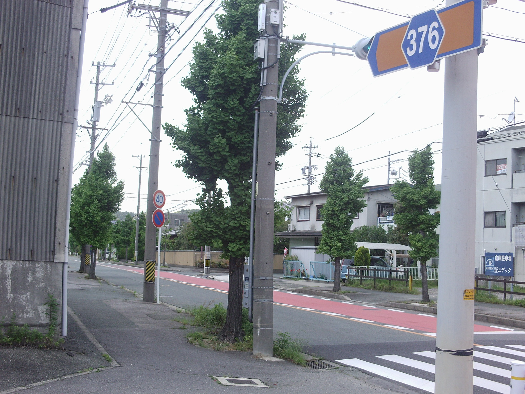 Aichi prefectural road No.376 in Hiroishicho, Gamagori, Aichi.